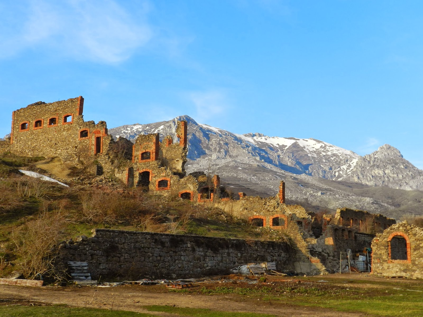 Ruins after bombing of La Fabricona de Golpejar de la Tercia, Spain